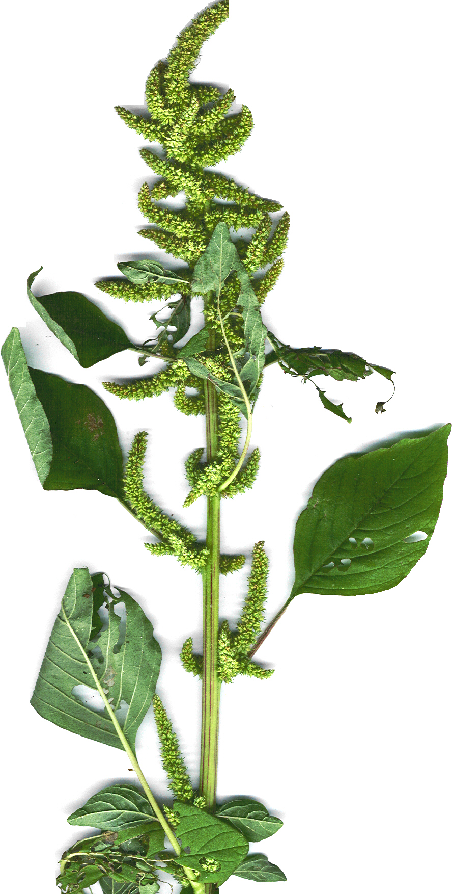 Amaranthus hybridus (plant). Location: Maui, Puu o Kali